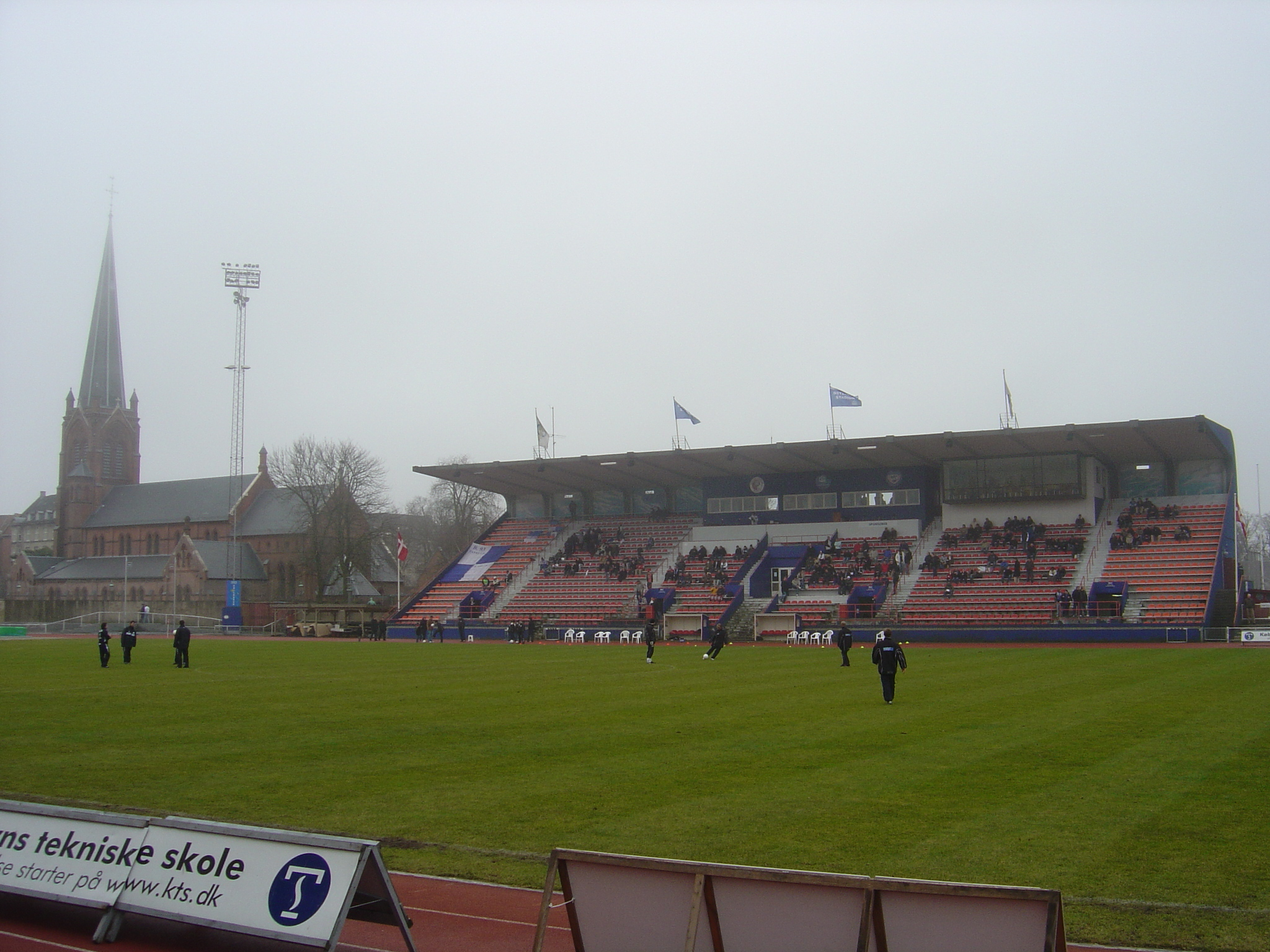 Østerbro Stadium - a Danish combined association football and athletic stadium, showing the main stand on one side during a Danish 1st Division match between Boldklubben af 1893 and Boldklubben Fremad Amager on 24 March 2005.